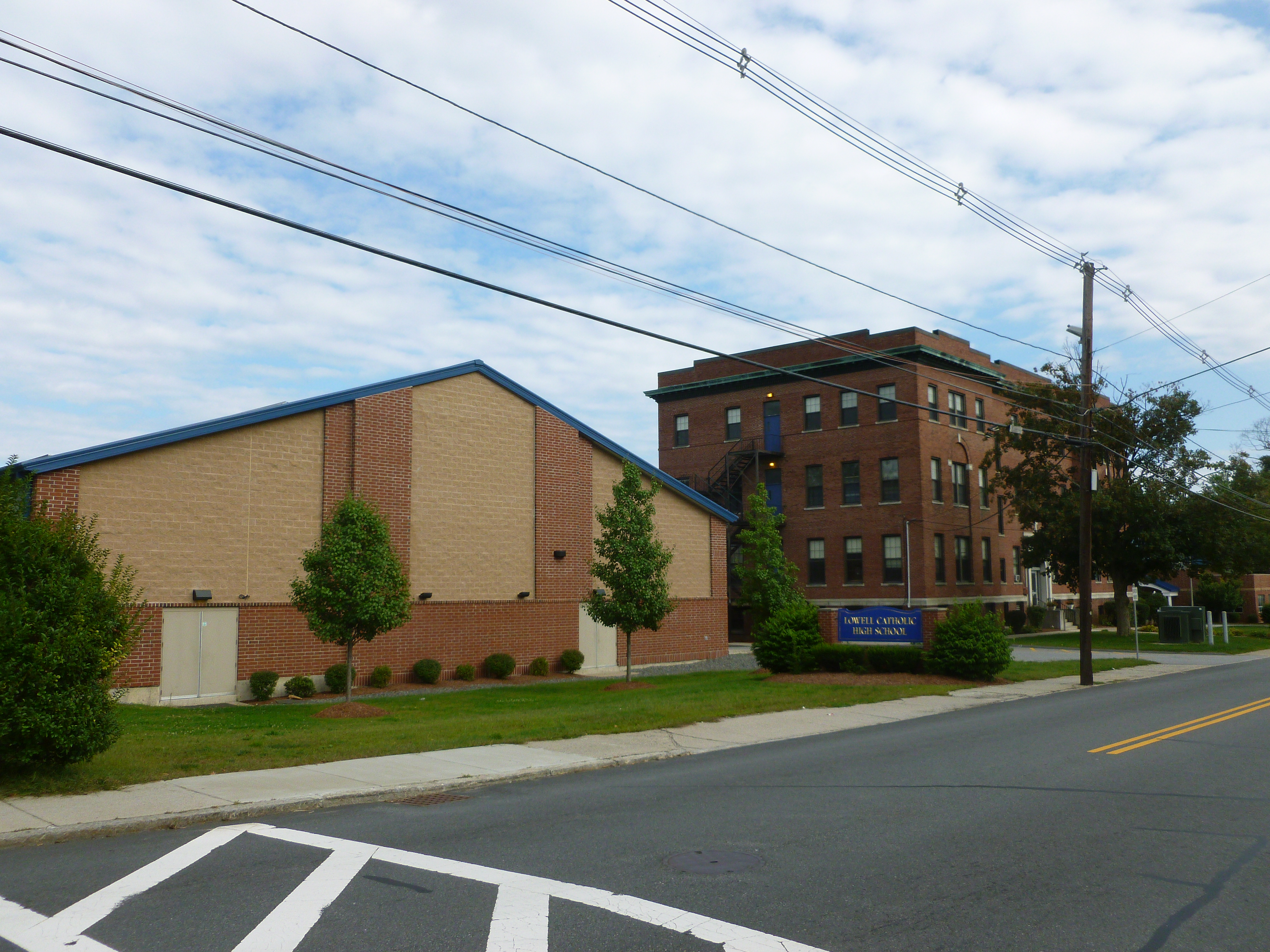 Lowell Catholic High School, located at 530 Stevens Street, Lowell, Massachusetts. Gym and main academic building of campus shown, as viewed from north.